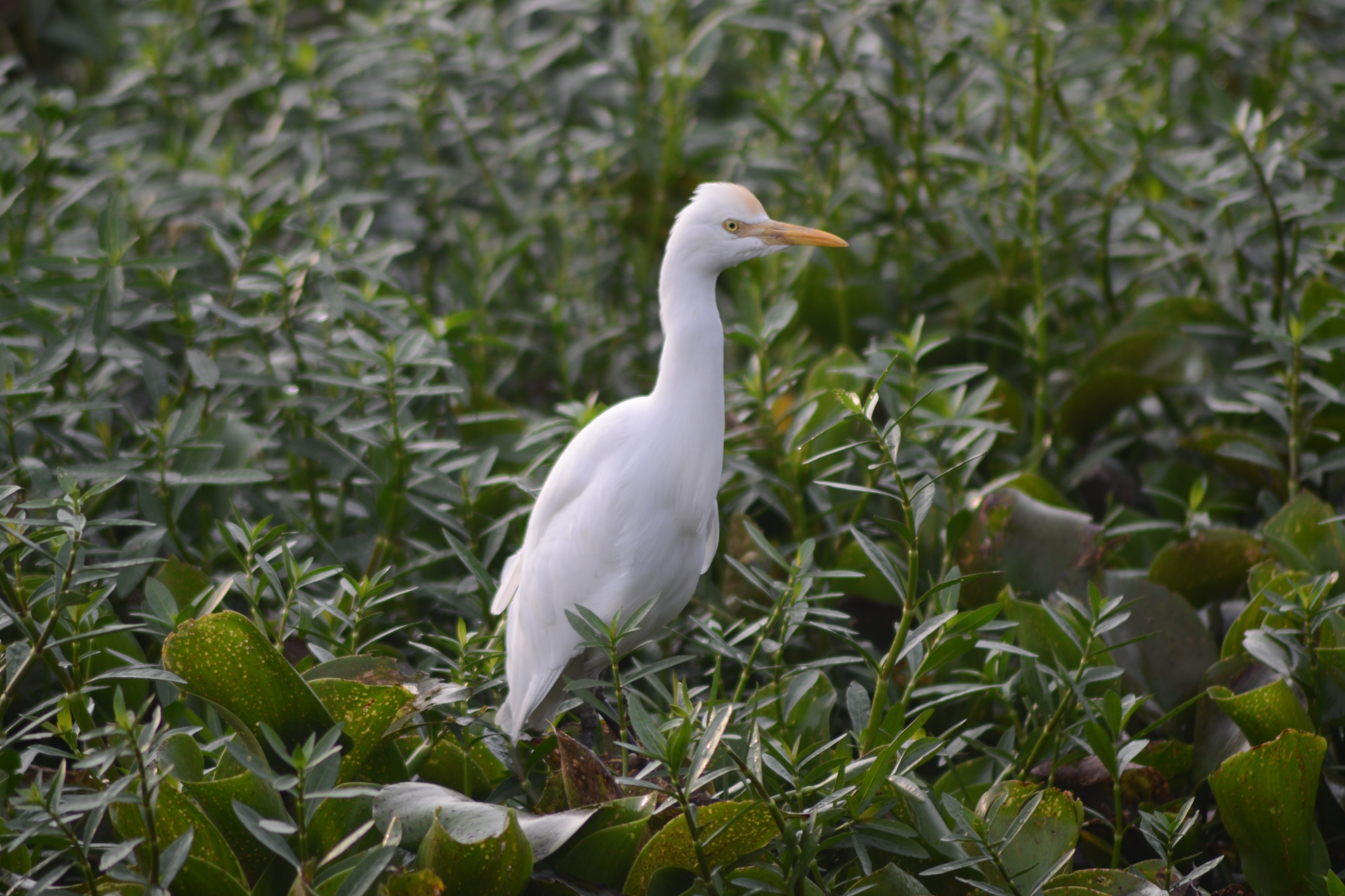 Bird in madiwala lake